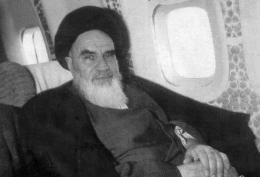 Ruhollah Khomeini in airplane.